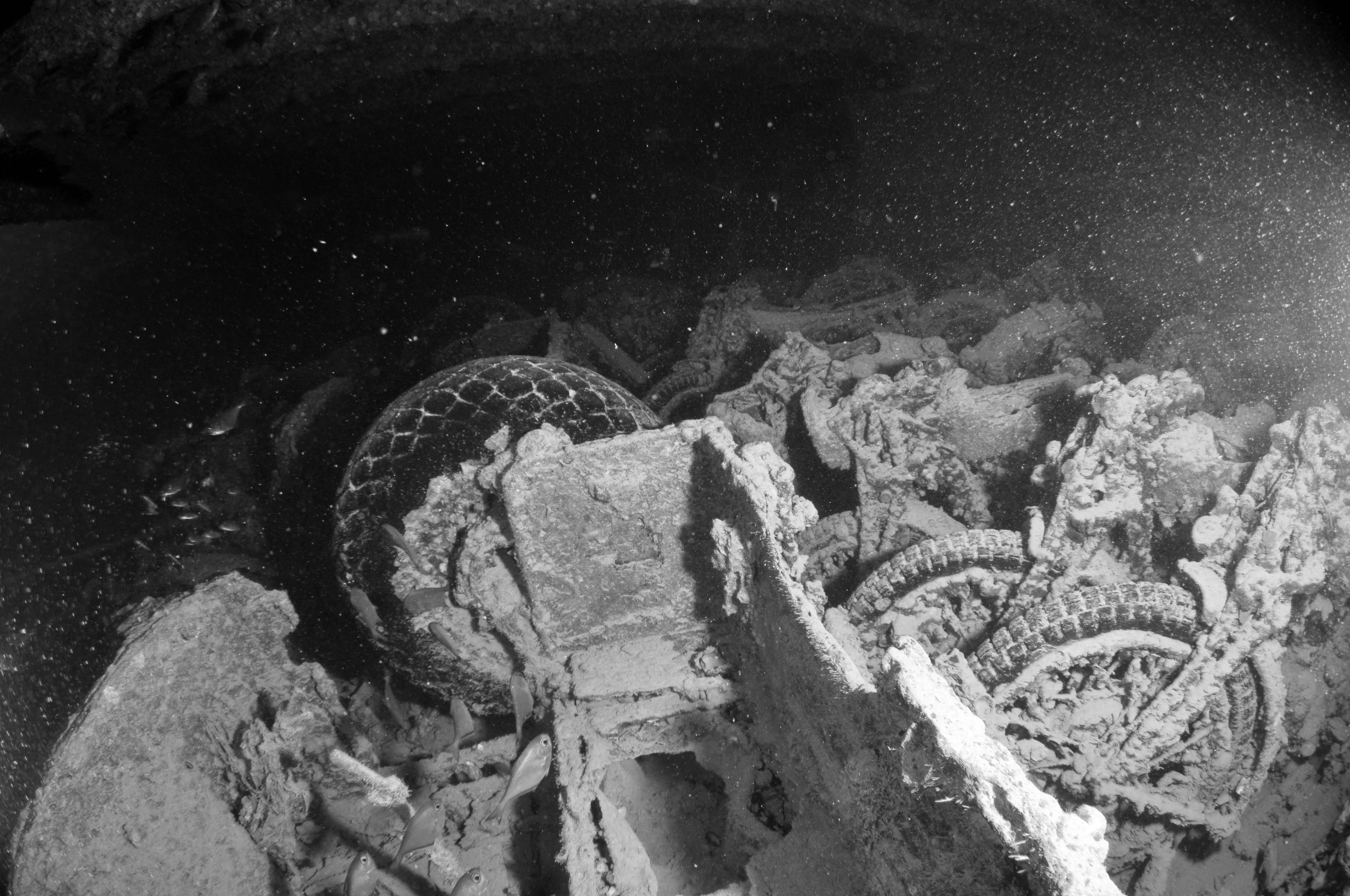 Motorbikes in the shipwreck "Thistlegorm"